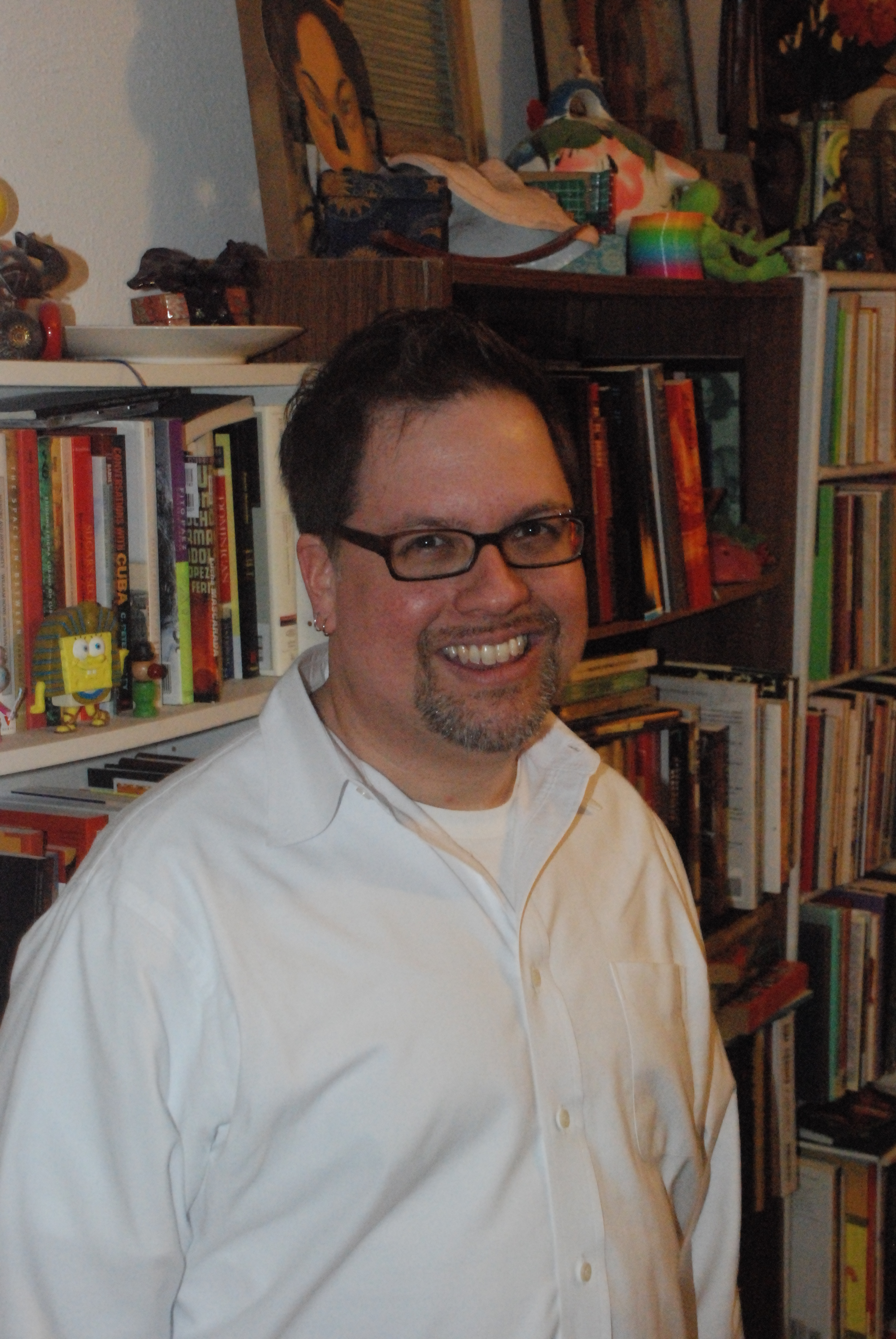 Photo of Lawrence La Fountain-Stokes